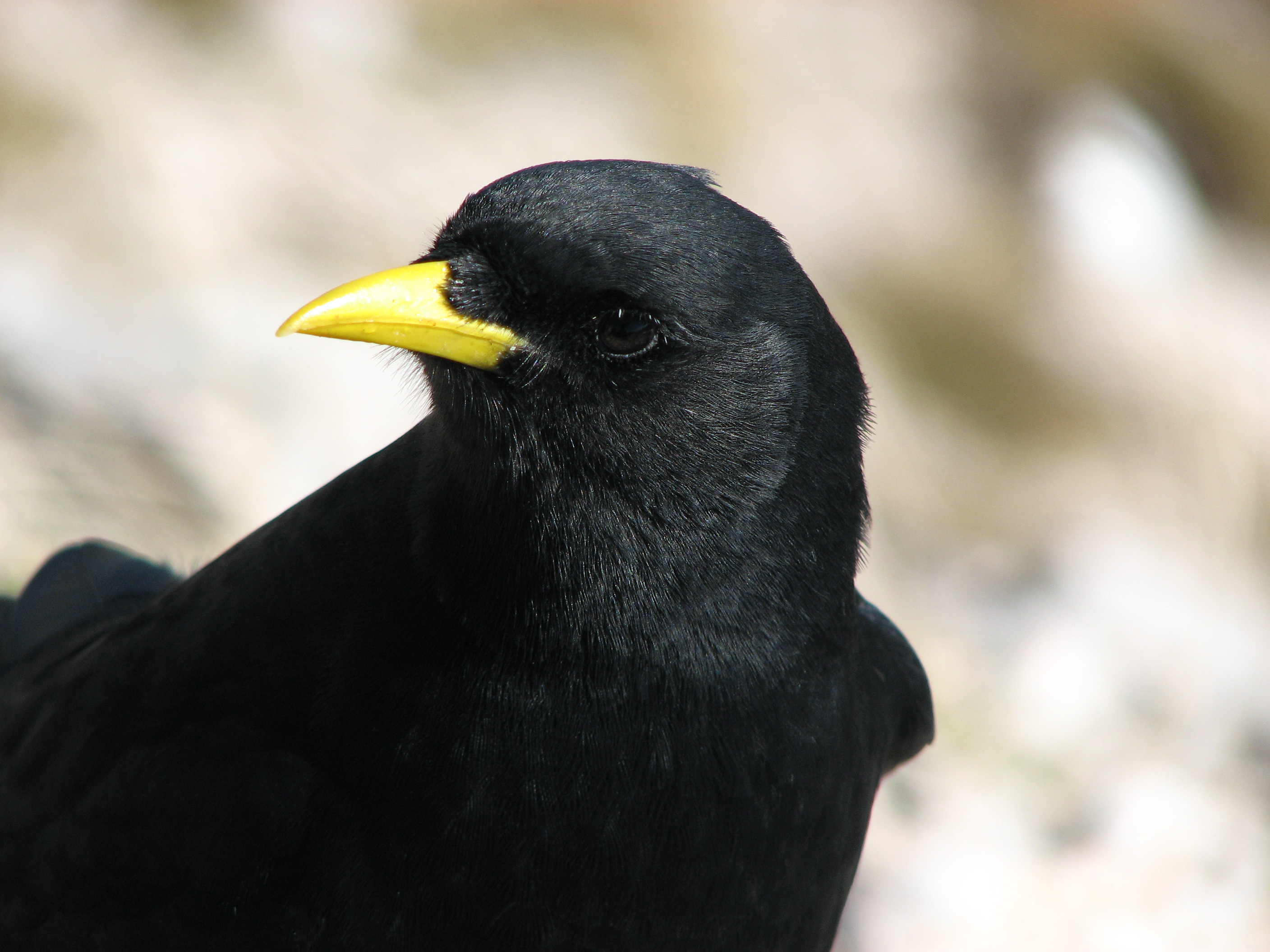 Alpine Chough (Pyrrhocorax graculus) on Košutnikov turn, Karavanke, Slovenia